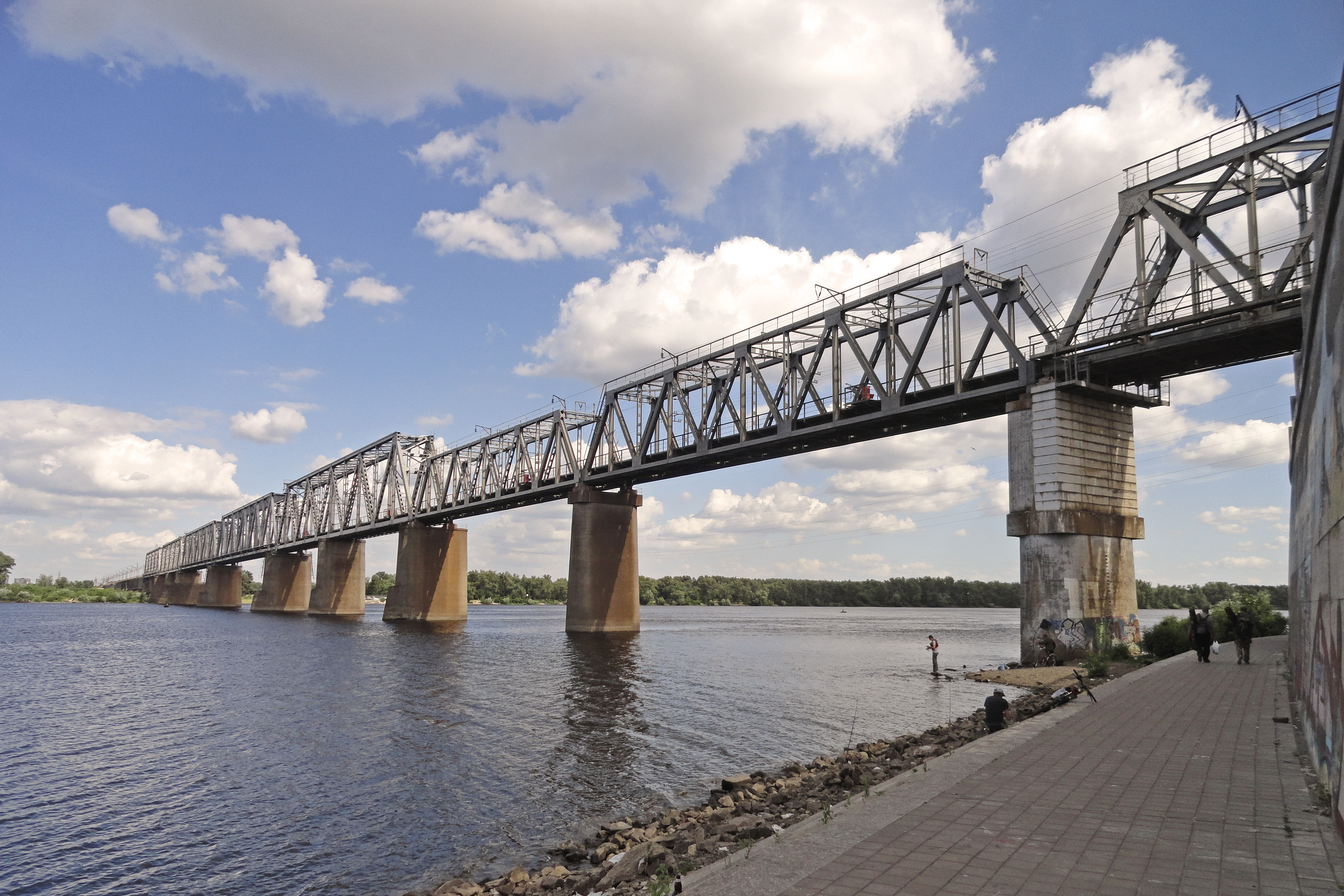 Petrovsky railway bridge in Kyiv, the view from the embankment of the Dnieper.